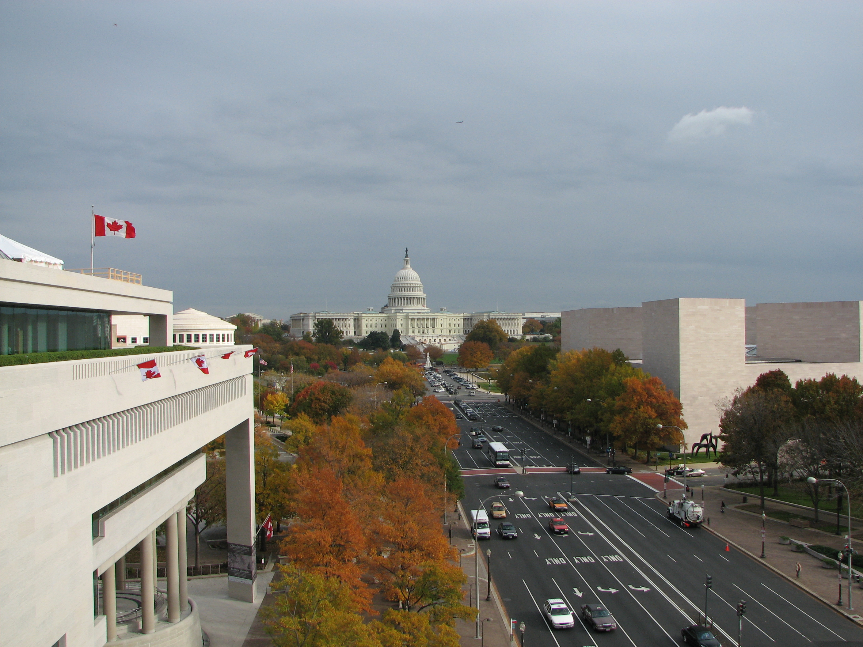 Pennsylvania Avenue seen from the terrace of Newseum. Canadian embassy on the left.